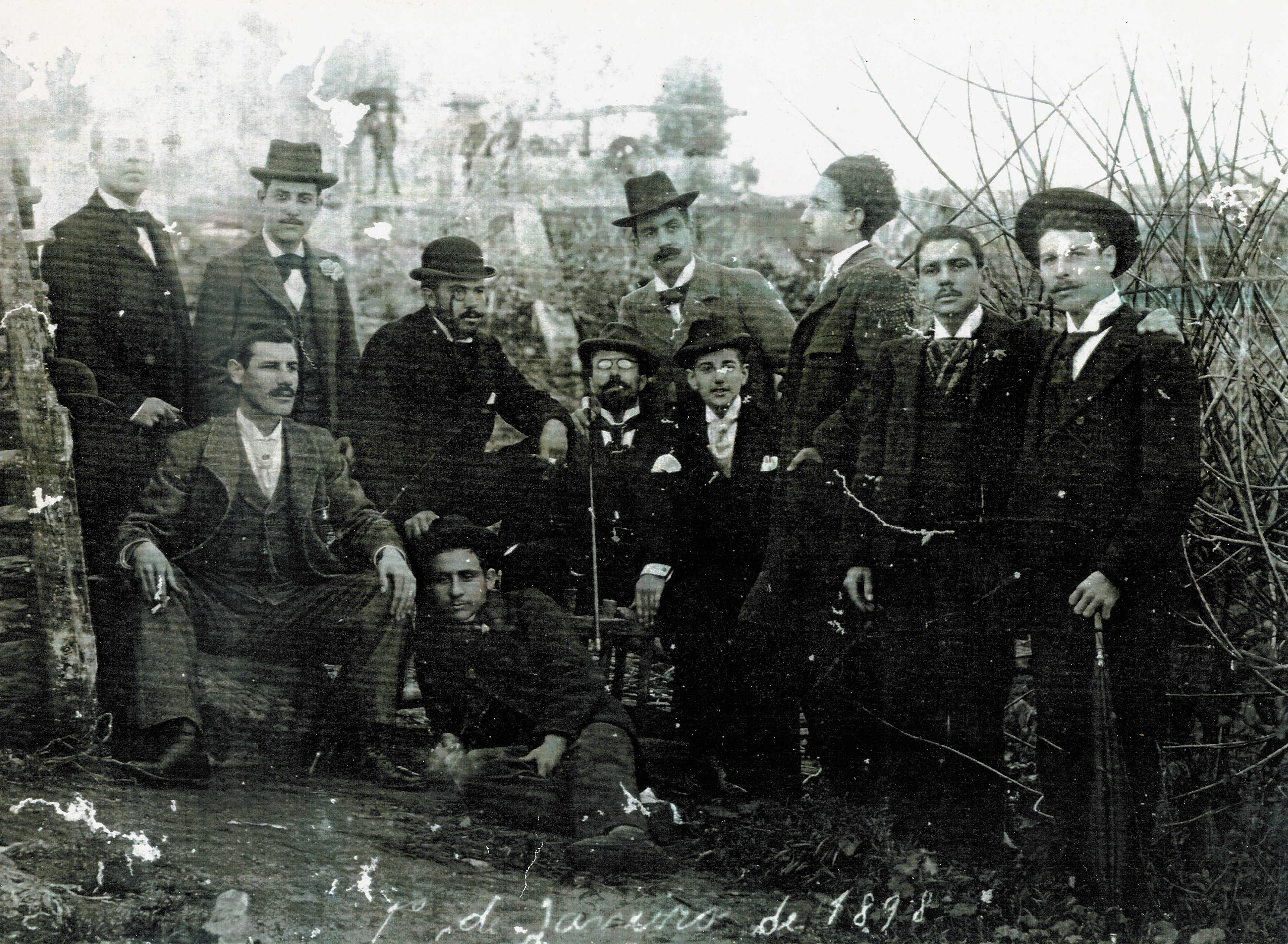 João Lúcio(de pé, terceiro a contar da direita) com amigos (Teixeira de Pascoaes? à esquerda, sentado e com um cigarro na mão). 1 de Janeiro de 1899